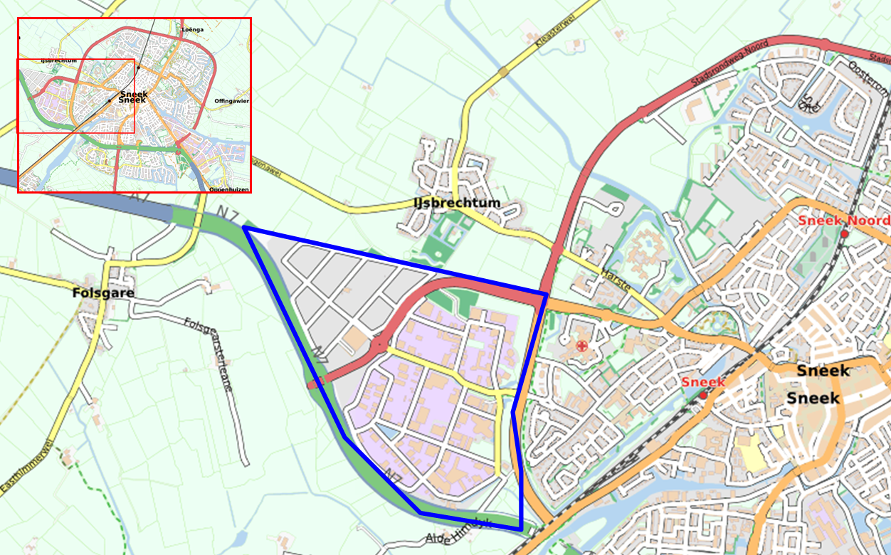 Own reproduction of OpenStreetMap. De Hemmen Sneek.